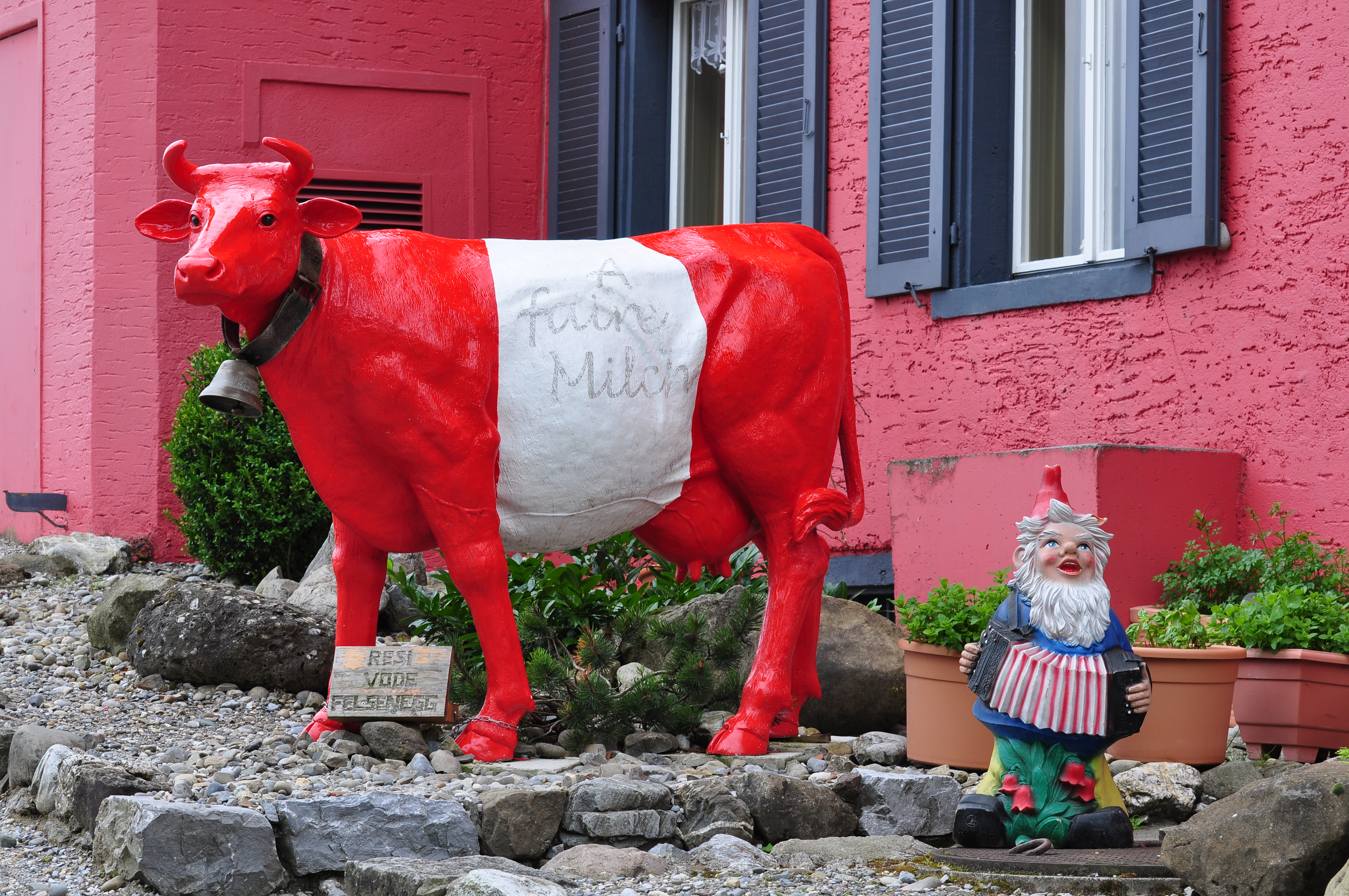 Felsenegg restaurant on Albis in Switzerland.